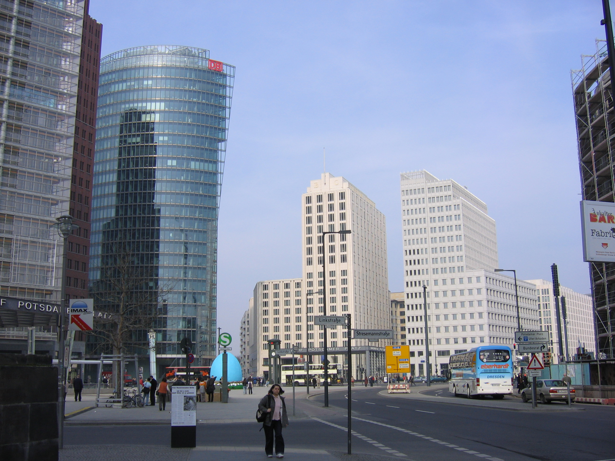 Potsdamer Platz